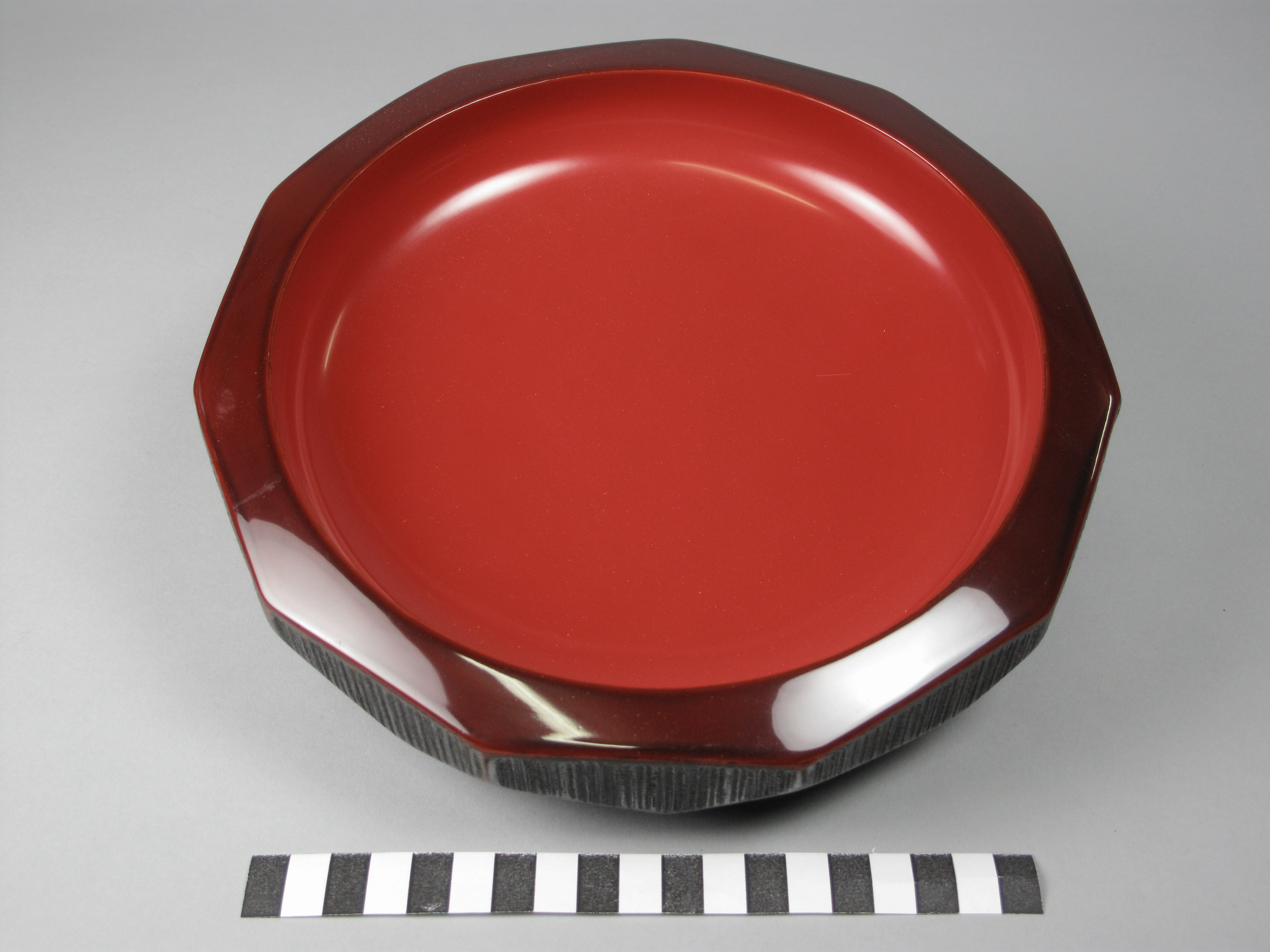 Japanese bowl